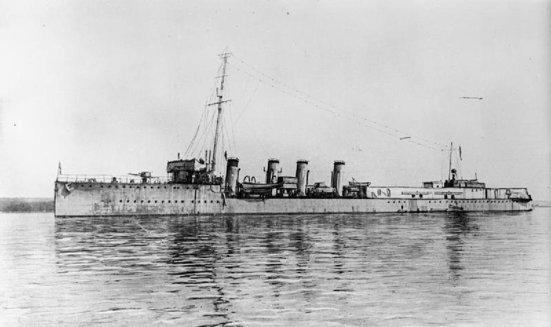 Photograph of British Marksman class flotilla leader destroyer HMS Abdiel, serving as a minelayer - note aft area screened with canvas.